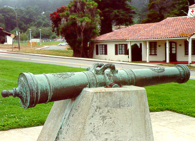 Spanish Canon La Virgen De Barbaneda, cast in 1693 in Lima, Peru, was installed on the Presidio of San Franciso in 1793 under spanish rule and later used by the mexican army after independence. It is now exhibited on Pershing Square in the Main Post of the Presidio